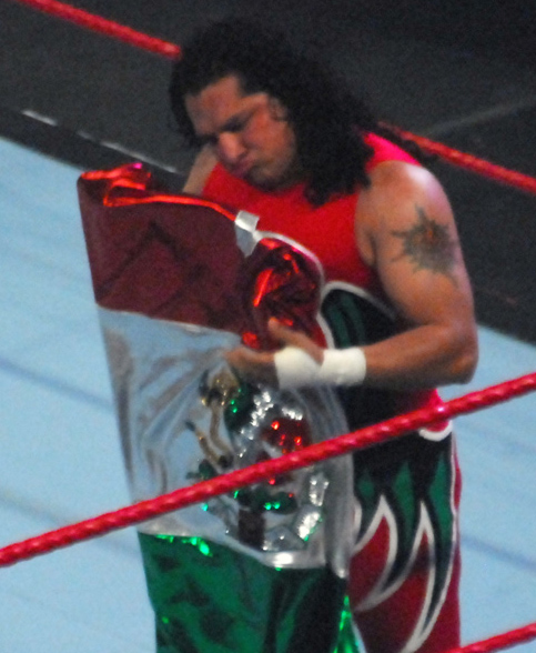 He's Super!! He's Crazy!! He's Super Crazy!!! That's actually how they introduce him.